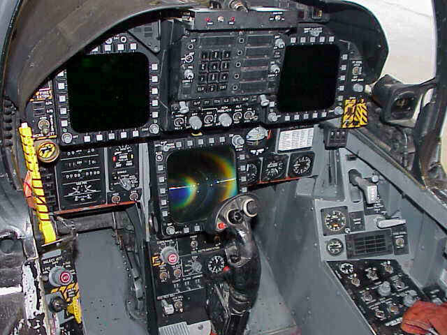 Cockpit of a F/A-18A Hornet